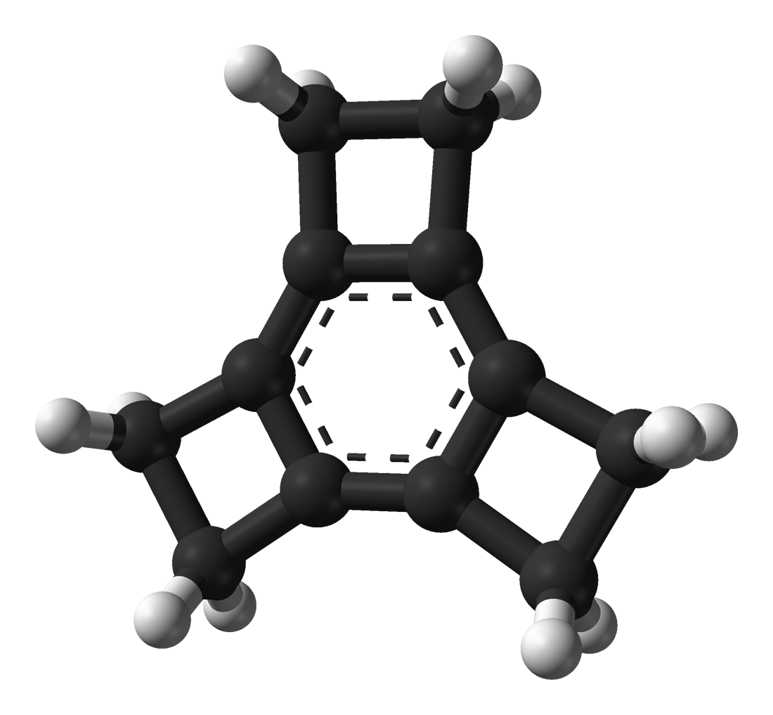 Ball-and-stick model of the tricyclobutabenzene molecule, C12H12, from the crystal structure. Colour code: Carbon, C: black Hydrogen, H: white Crystal structure by X-ray diffraction from Angew. Chem. Int. Ed. (1994) 33, 313-317. Model constructed in CrystalMaker 8.1. Image generated in Accelrys DS Visualizer.